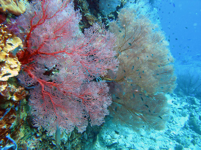 Knotted fan coral (Melithaea ochracea), Pulau Tioman, West Malaysia